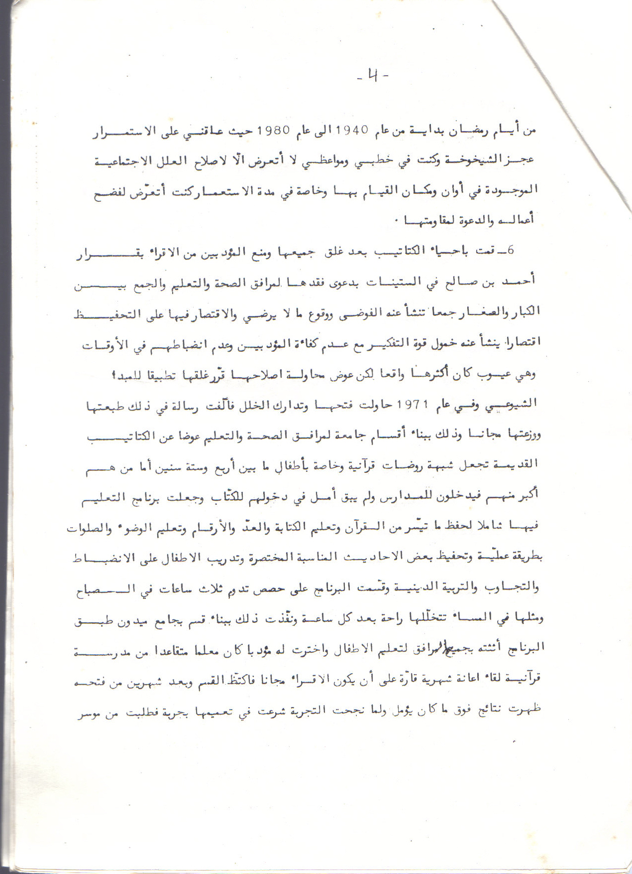 السيرة الذاتية للشيخ الطيب التليلي، ص 4